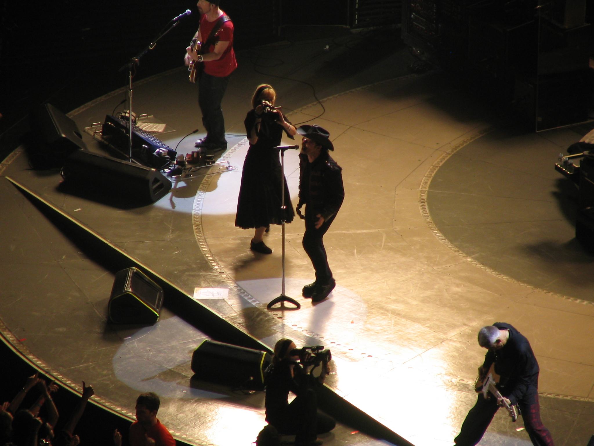 Australian Filmmaker Lian Lunson films a U2 concert in Toronto, Canada